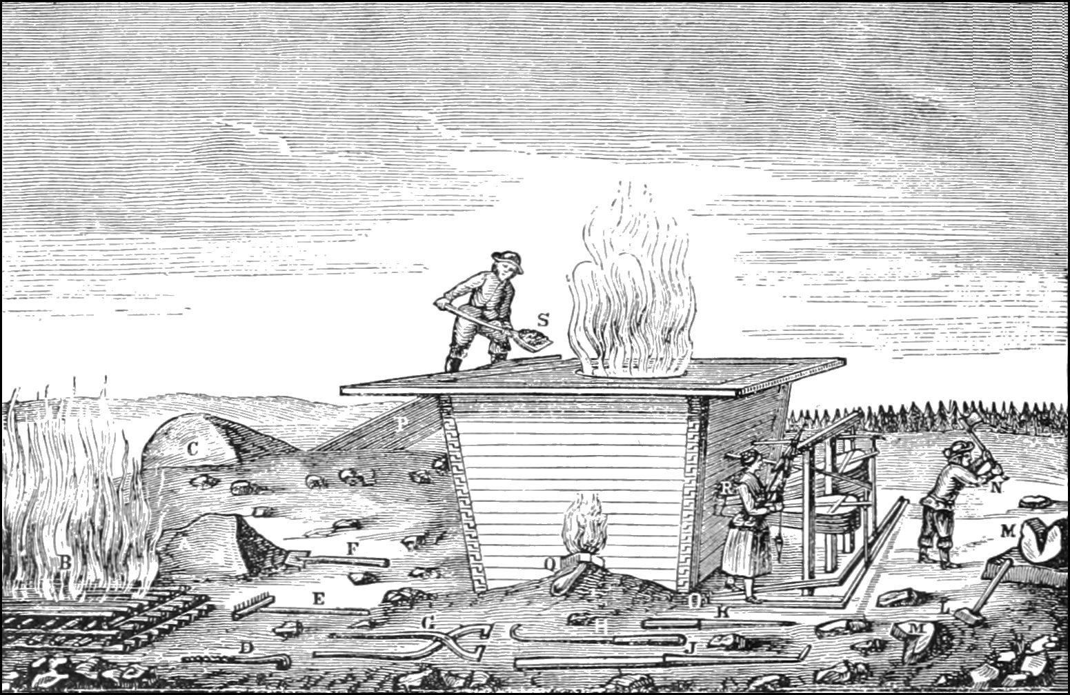 An Osmund bloomery furnace. One should consider that the author wrote "we find no mention of any furnace having been erected called by that name". In fact "osmond" is generally linked to a finery forge.